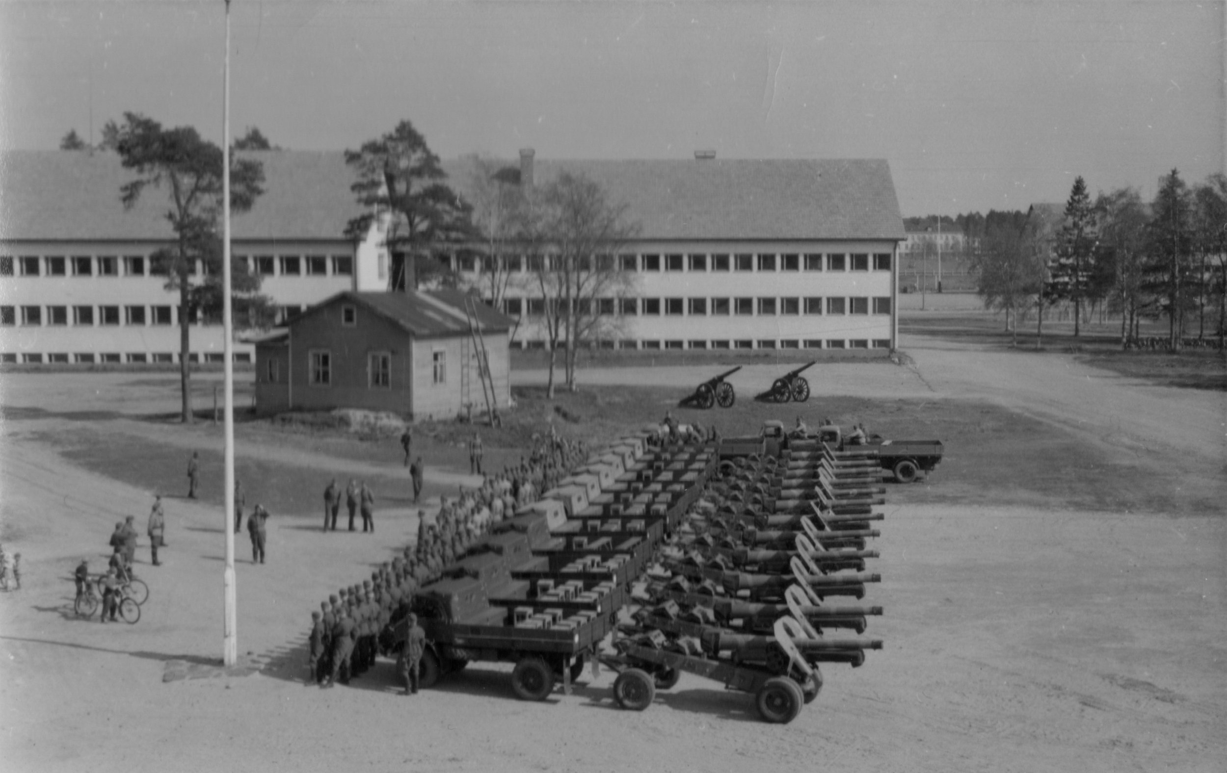 Pohjanmaan tykistörykmentti (Ostrobothnia artillery regiment) at the Oulu Barracks in spring 1960.